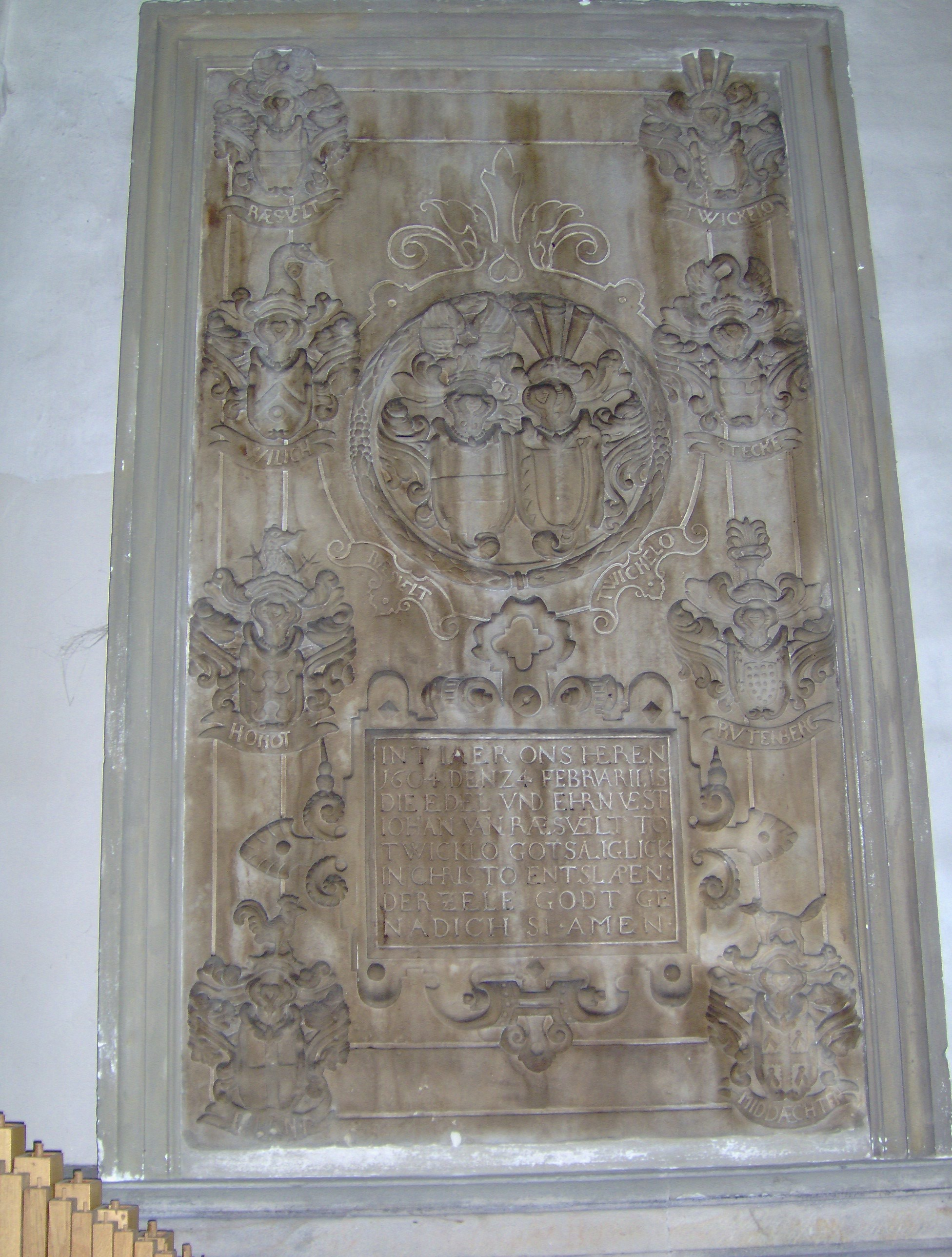 Interior of the Oude Blasius, the Old Blaise Church of Delden. Epitaph from 1604. Location: Delden, a city in the municipality of Hof van Twente, Netherlands